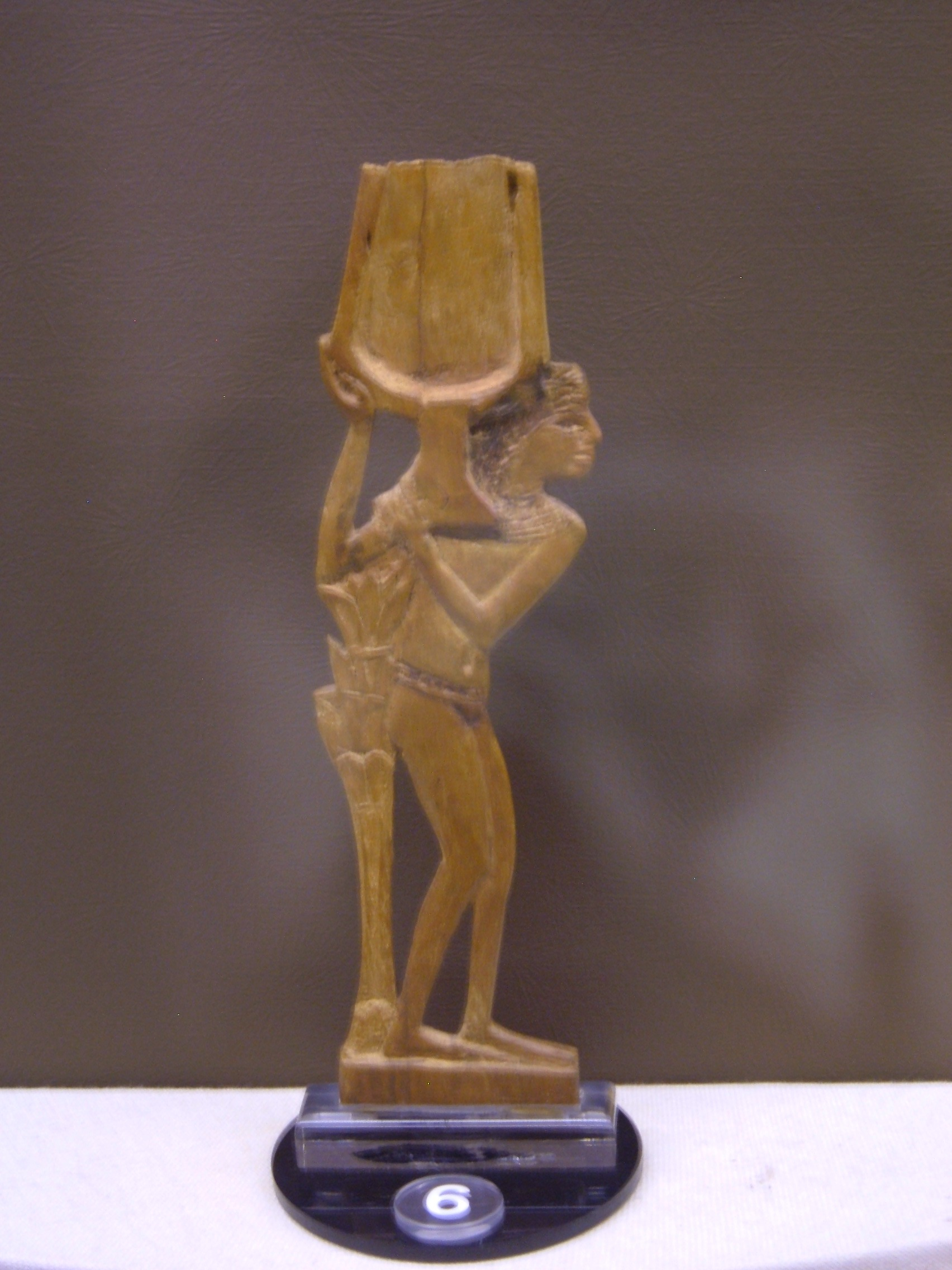 Wooden spoon used for holding makeup in the form of a nude young girl symbolizing the goddess Hathor (Dynasty 18) on display at the Rosicrucian Egyptian Museum in San Jose, California. RC 1682